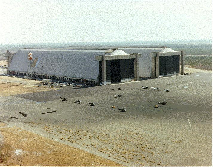 The old airship hangars 5 & 6 at the Naval Air Engineering Station Lakehurst, New Jersey (USA). They are the largest free standing wooden arch structures in the US.